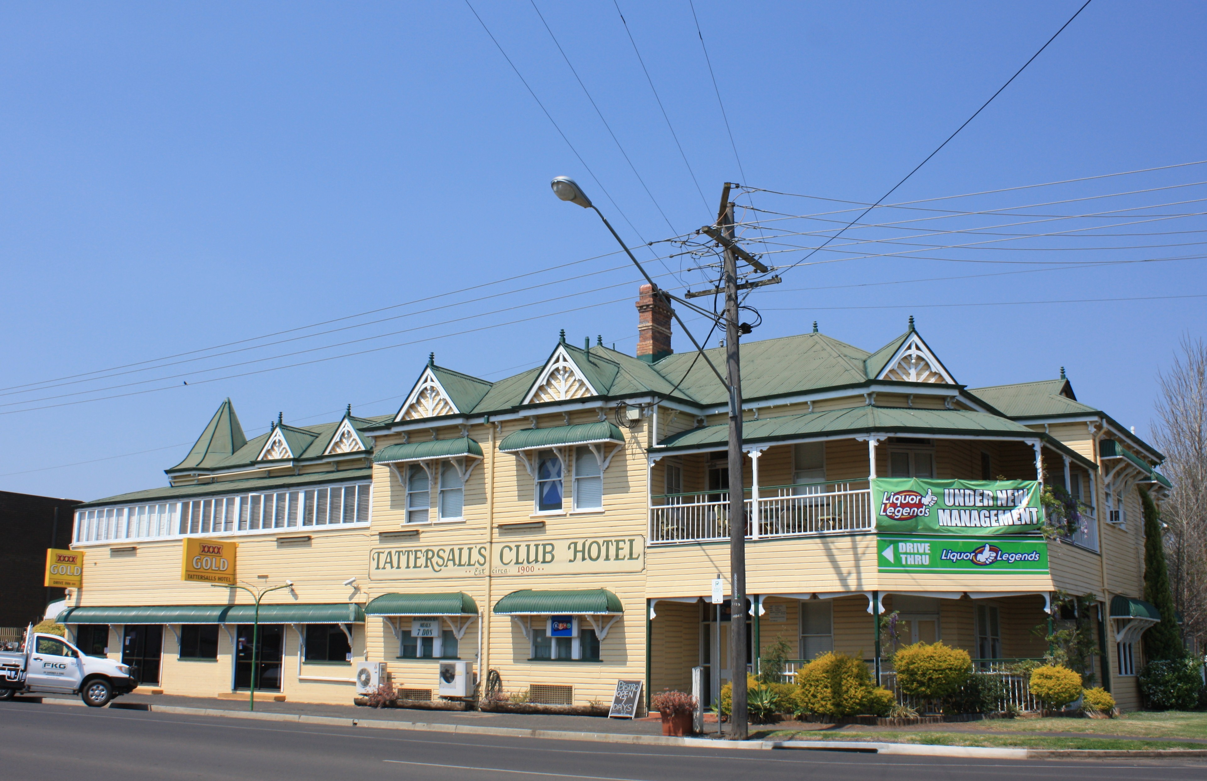 Cnr Yandilla & Briggs Streets, Pittsworth. Established c. 1900.